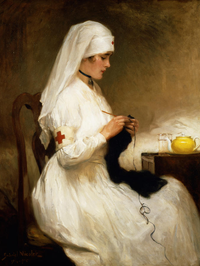 Right profile of Red-cross nurse seated in chair beside bed knitting, while at her knees is stand containing teapot and glass.[Google Books]